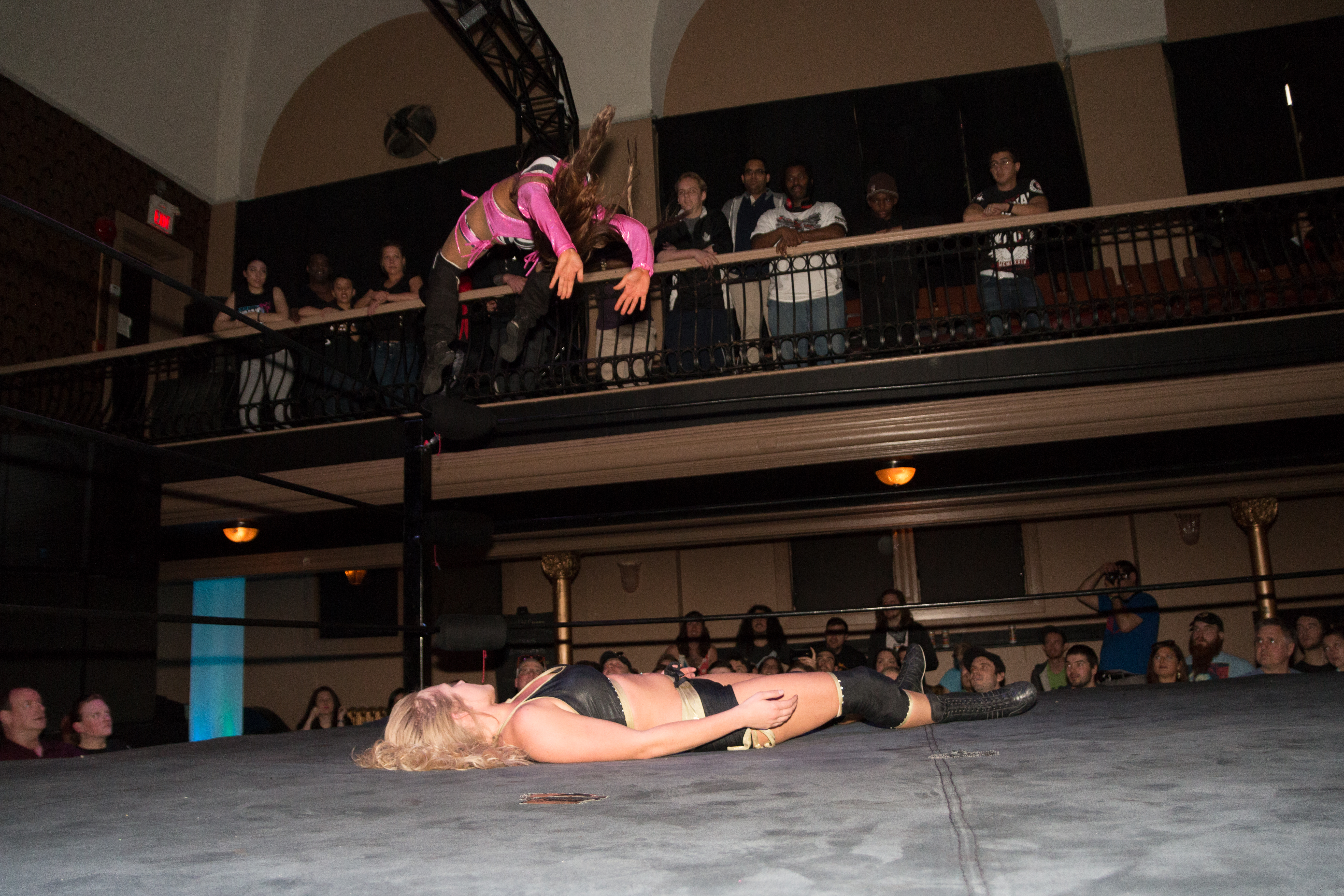 Jasmin Areebi executing a moonsault onto Leah von Dutch at a wrestling show in Toronto, ON